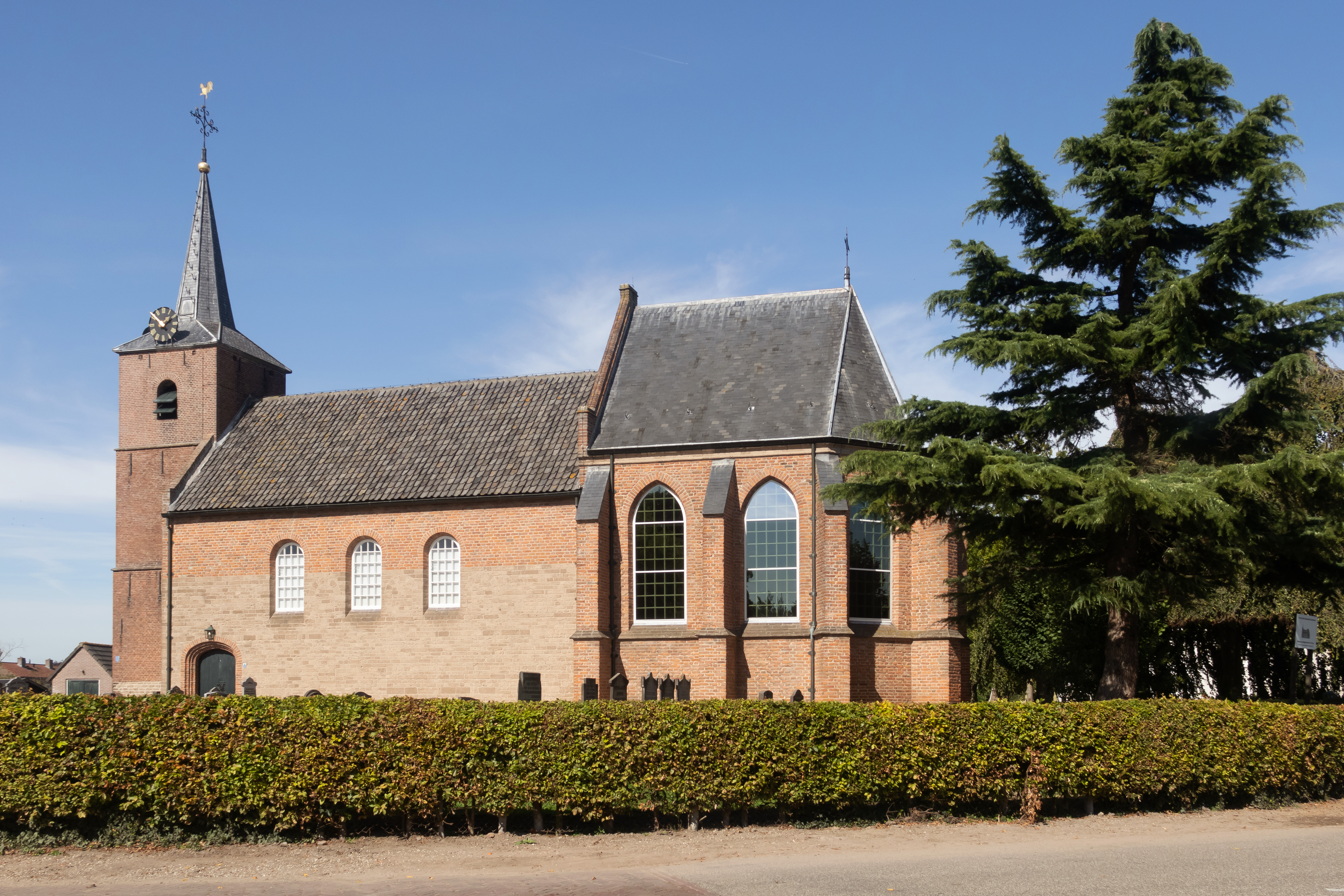 Ommeren, church: de Dorpskerk